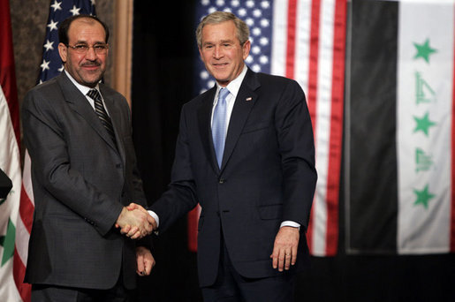 U.S. President George W. Bush and Iraqi Prime Minister Nouri al-Maliki shake hands after a joint press availability Thursday, Nov. 30, 2006, in Amman, Jordan. The leaders later issued a joint statement in which they said they were, "Pleased to continue our consultations on building security and stability in Iraq." White House photo by Paul Morse. (Details)